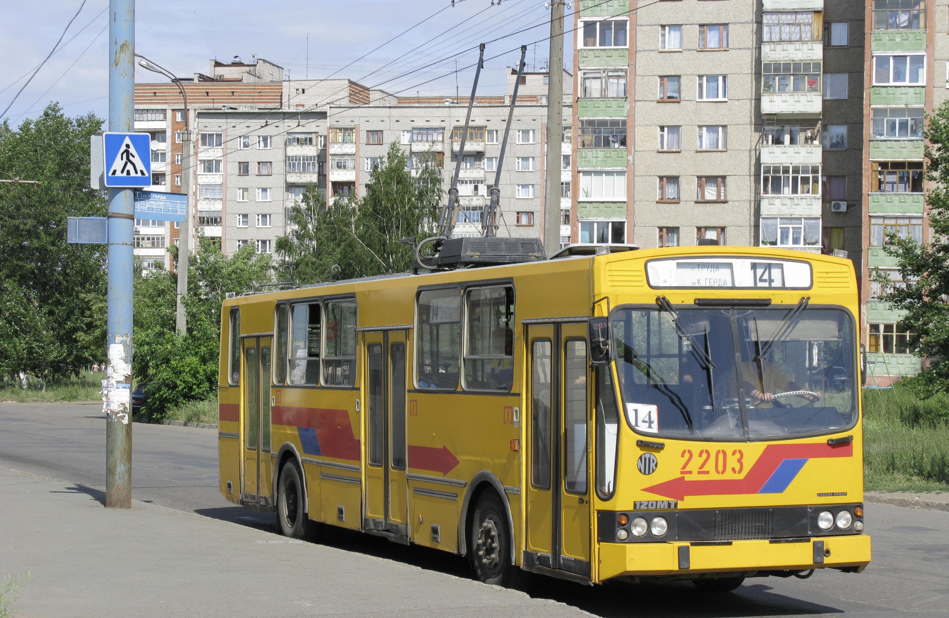 Nordtroll-120MTr trolleybus (#2203, built 1998, Jelcz 120MT body) on line 14 in Izhevsk, Russia.